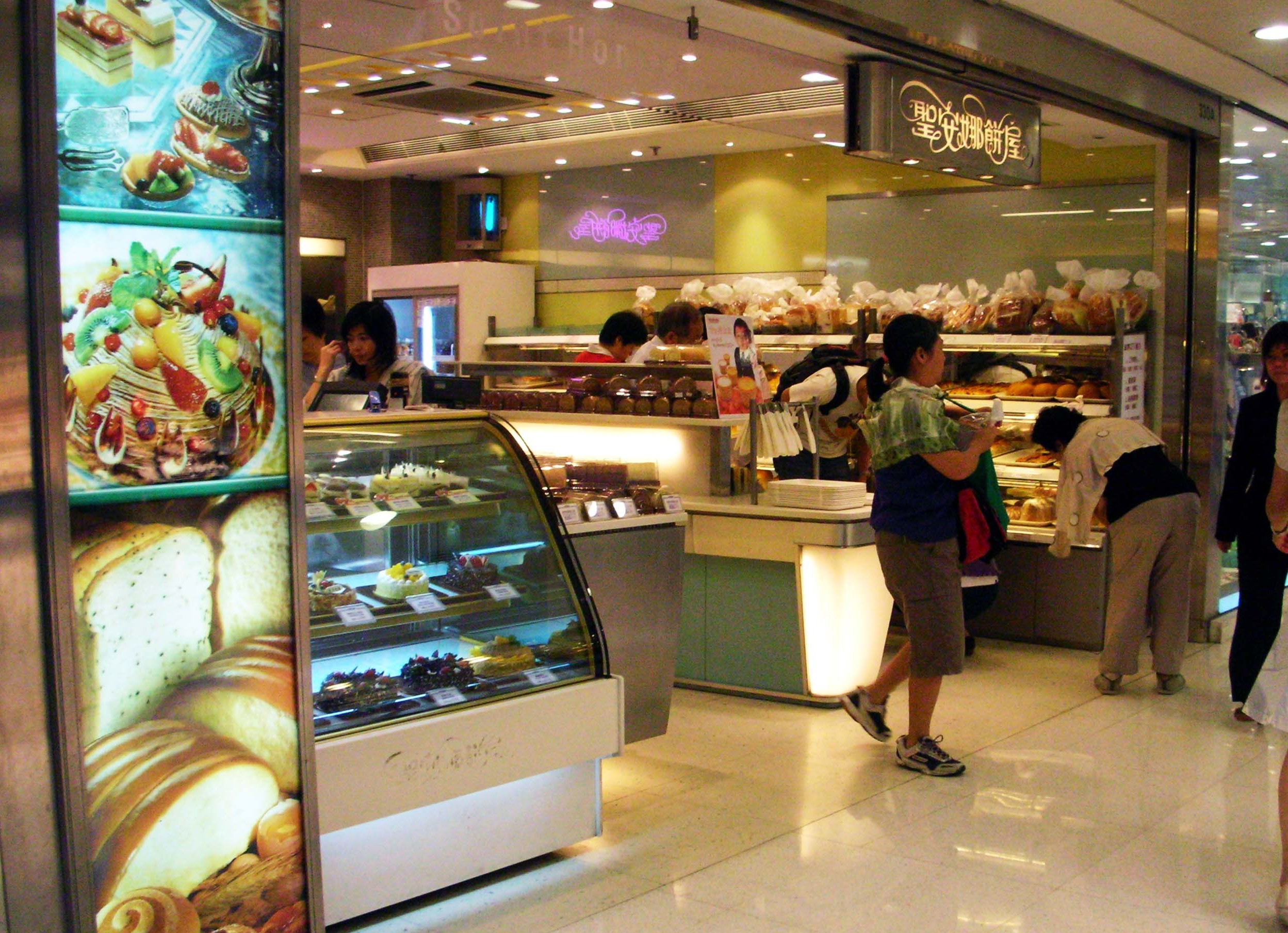 An outlet of Saint Honore Cake Shop, located at Chai Wan, Hong Kong